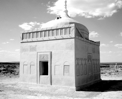 Дәуімшар қорымы